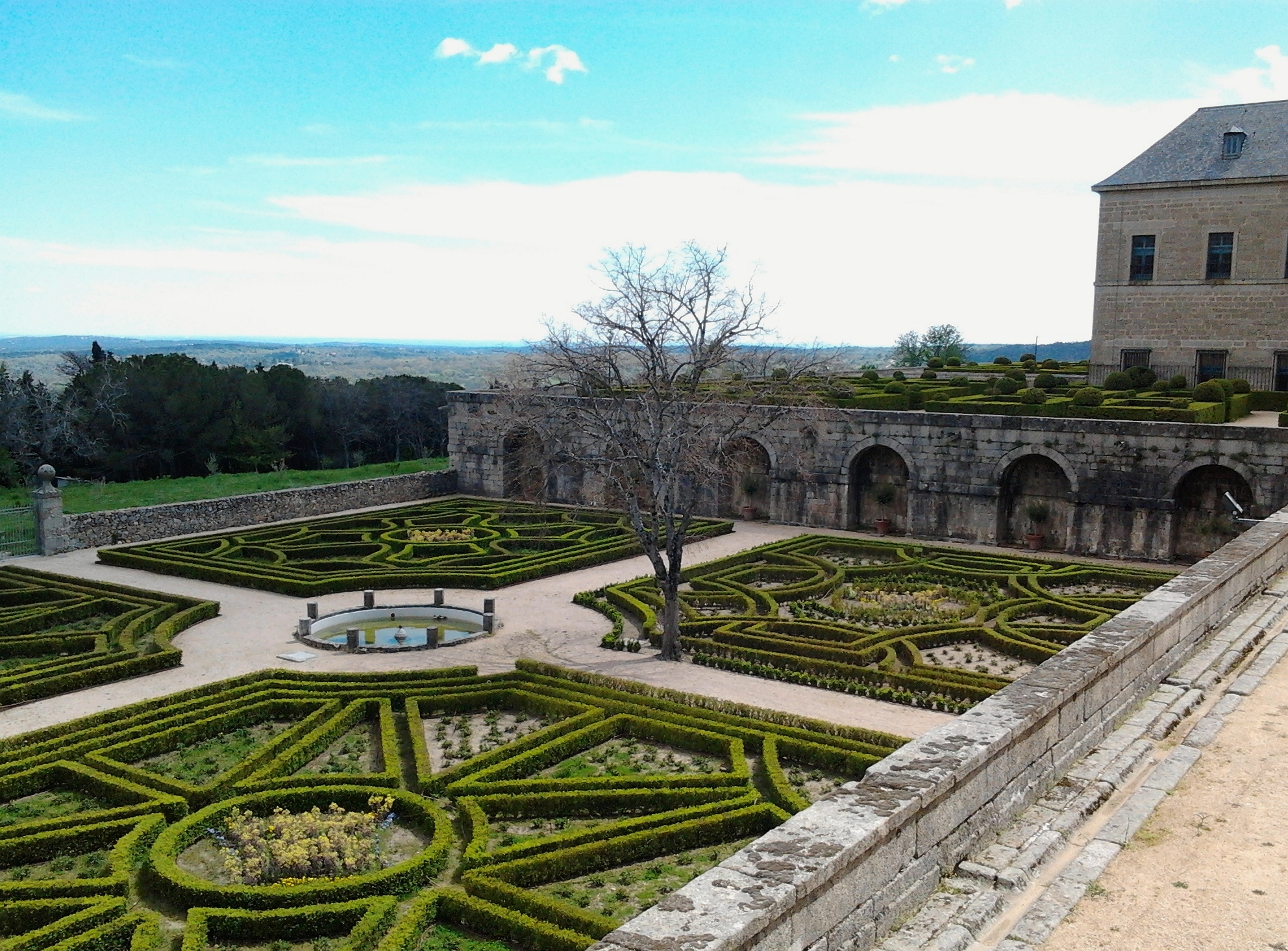 Garden of the Palace of Philip II in the Escorial Monastery.label QS:Len,"Garden of the Palace of Philip II in the Escorial Monastery." label QS:Lpl,"Ogród Pałacu Filipa II w Eskurialu." label QS:Lfr,"Jardin du palais de Philippe II dans le monastère de l'Escorial."